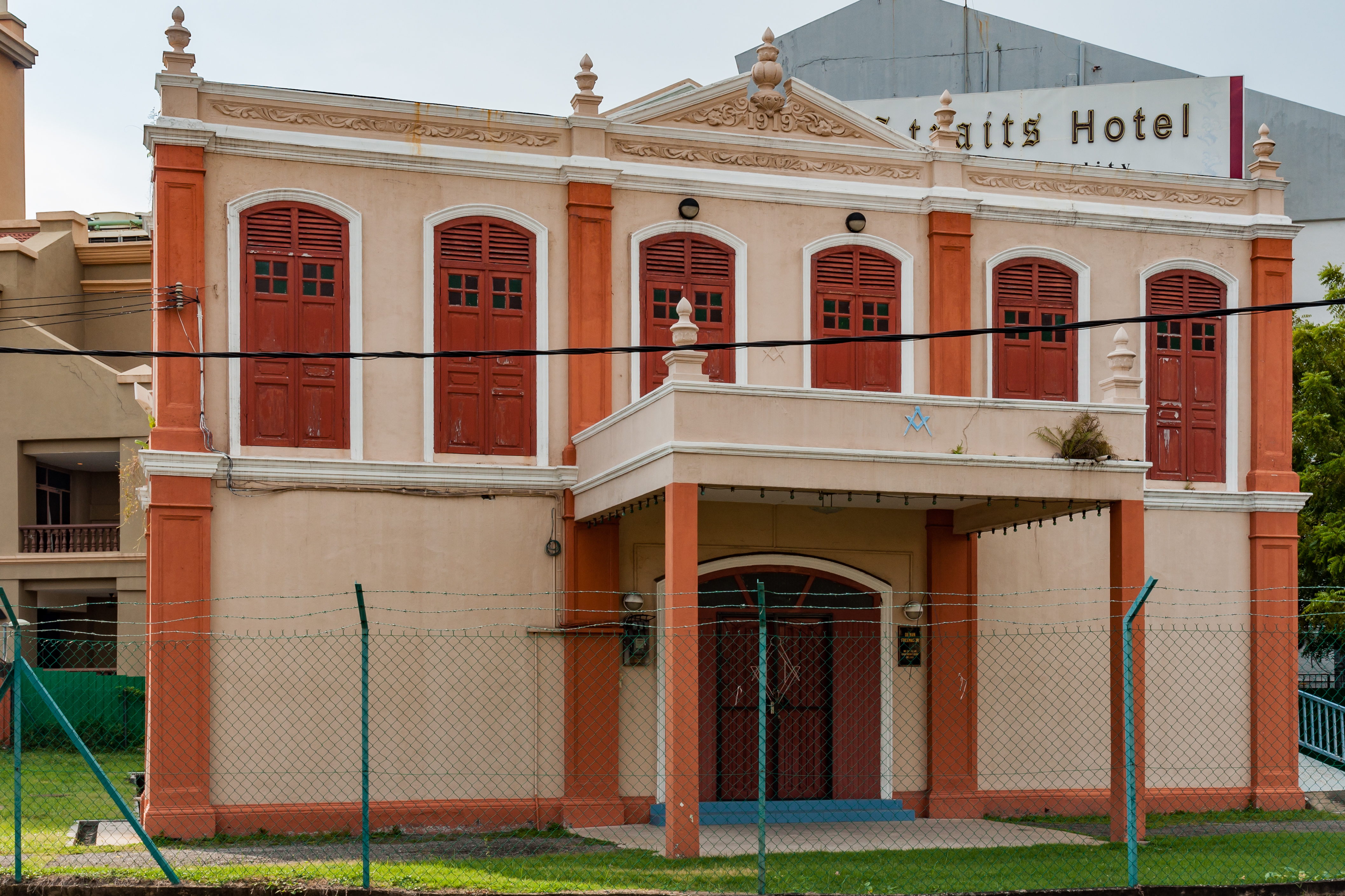 Melaka City, Malaysia: The Freemason Hall in 74, Jalan Chan Koon Cheng